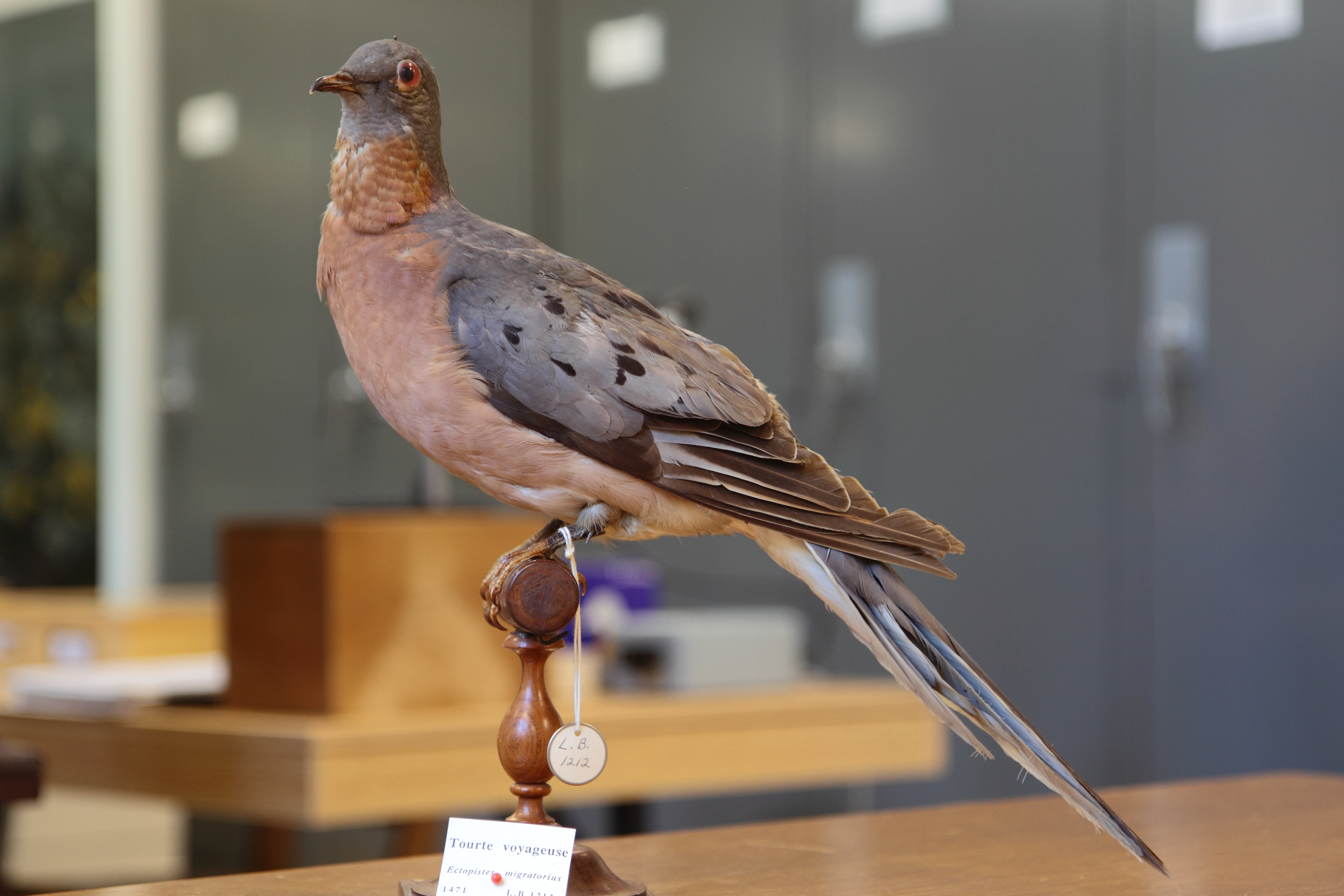 Passenger Pigeon, taxidermied adult male. Teaching and research collections, Laval University Library.